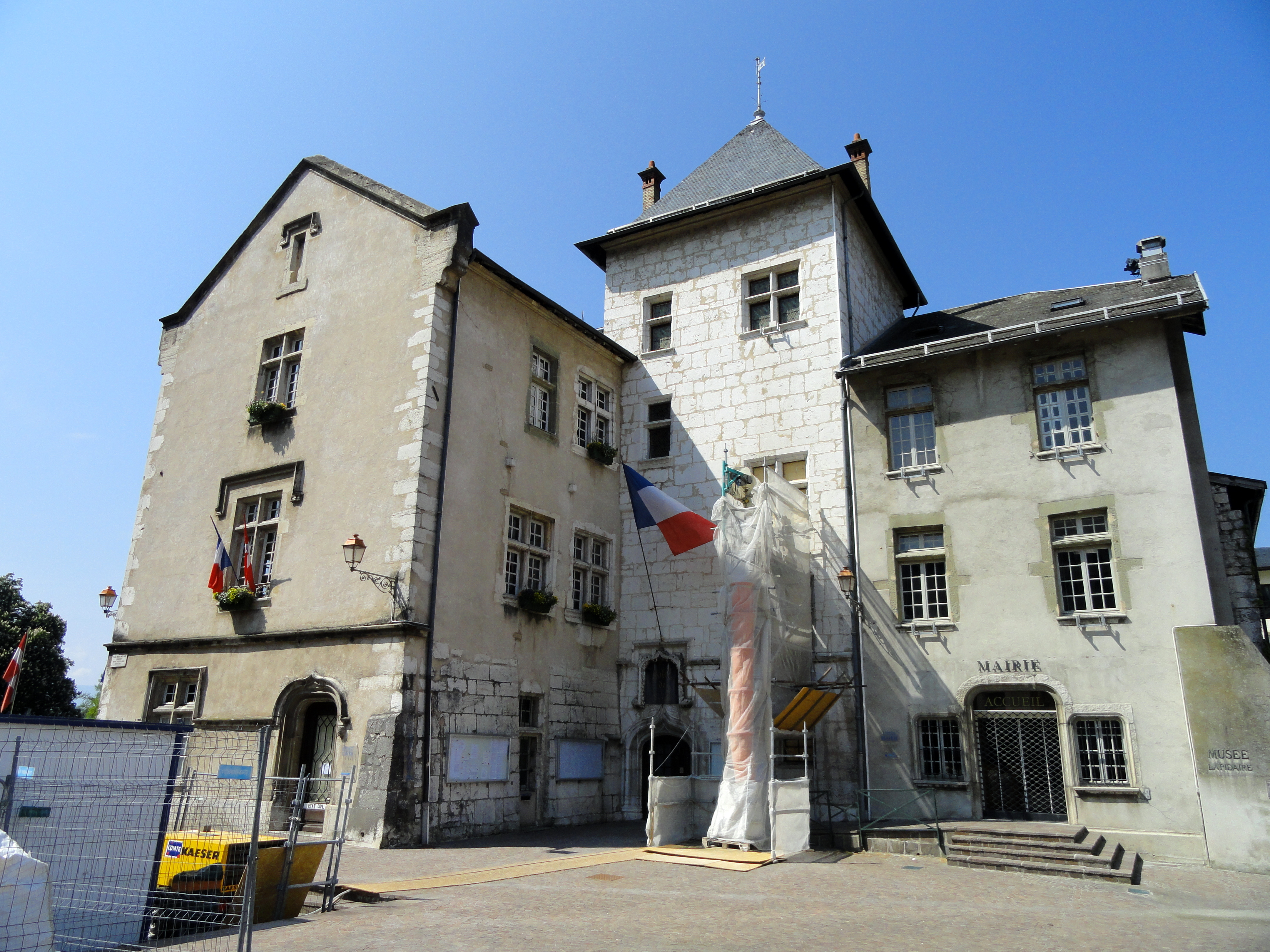 Mairie, Aix-les-Bains, France.